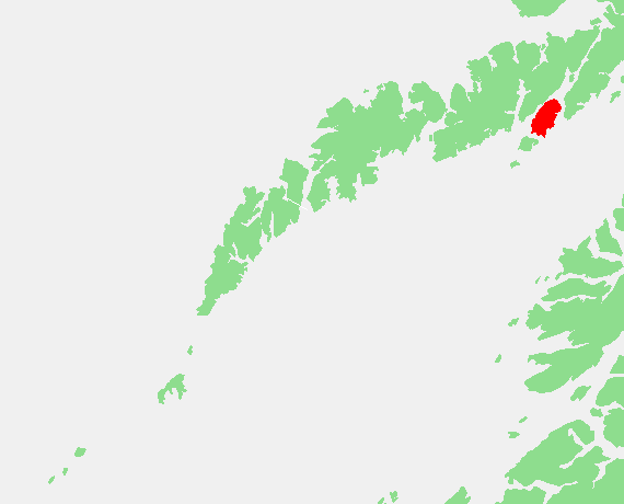 Island of Norway - Store Molla.PNG